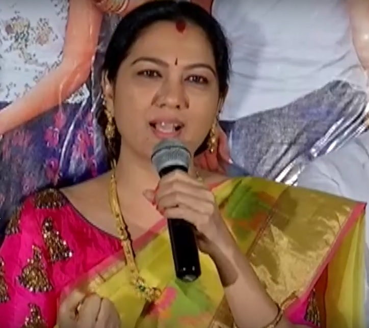 Indian actress Hema at the teaser release event of the 2018 Telugu language film Ammammagarillu.